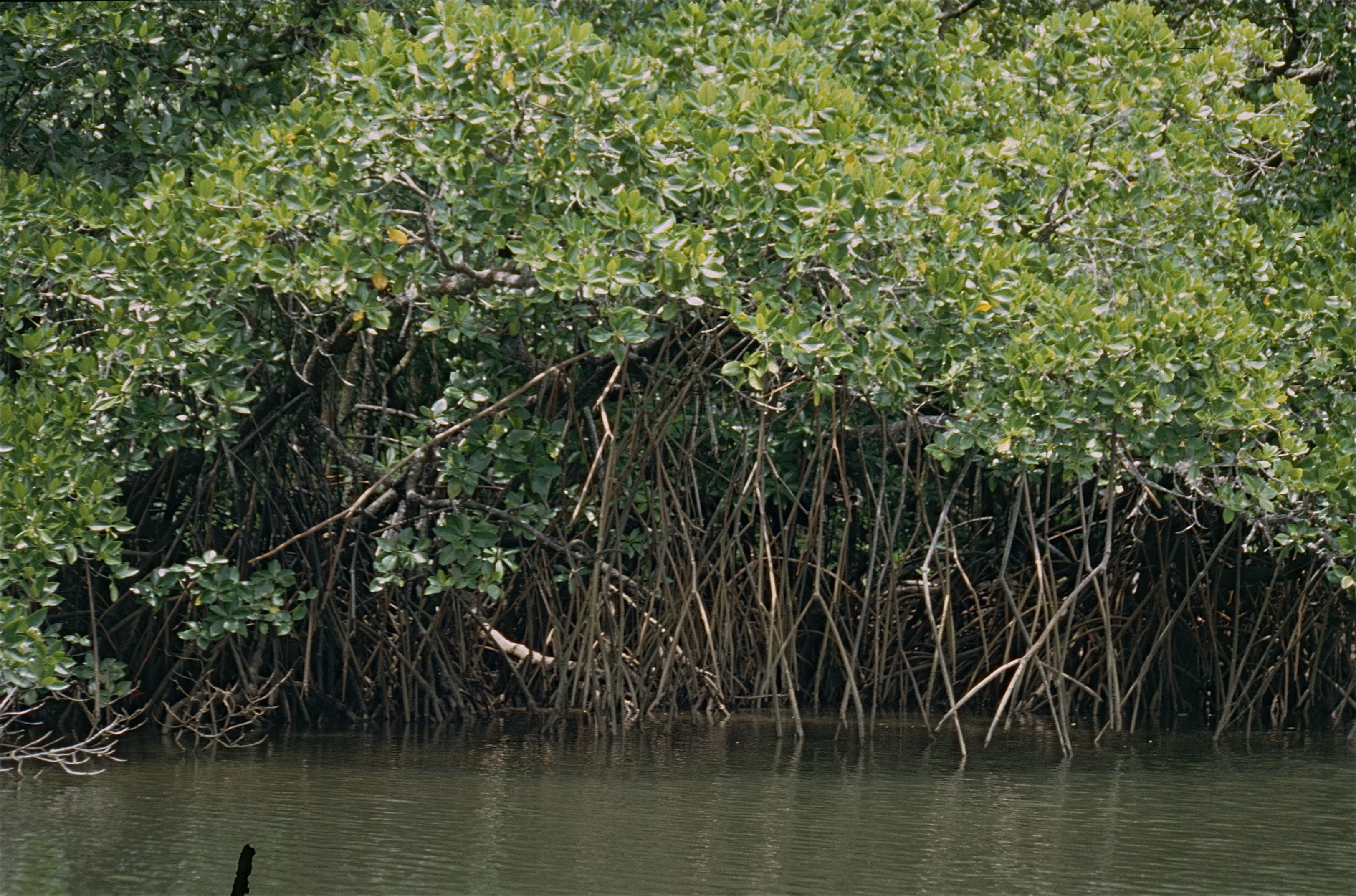 Coopeer Creek, Cape Tribulation, North Queensland, AUSTRALIA Scanned Slide from Nov 2000